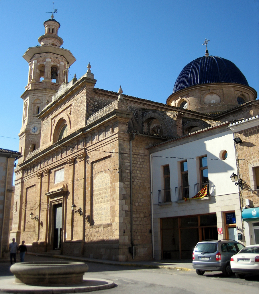 Main square in Jalon and church.